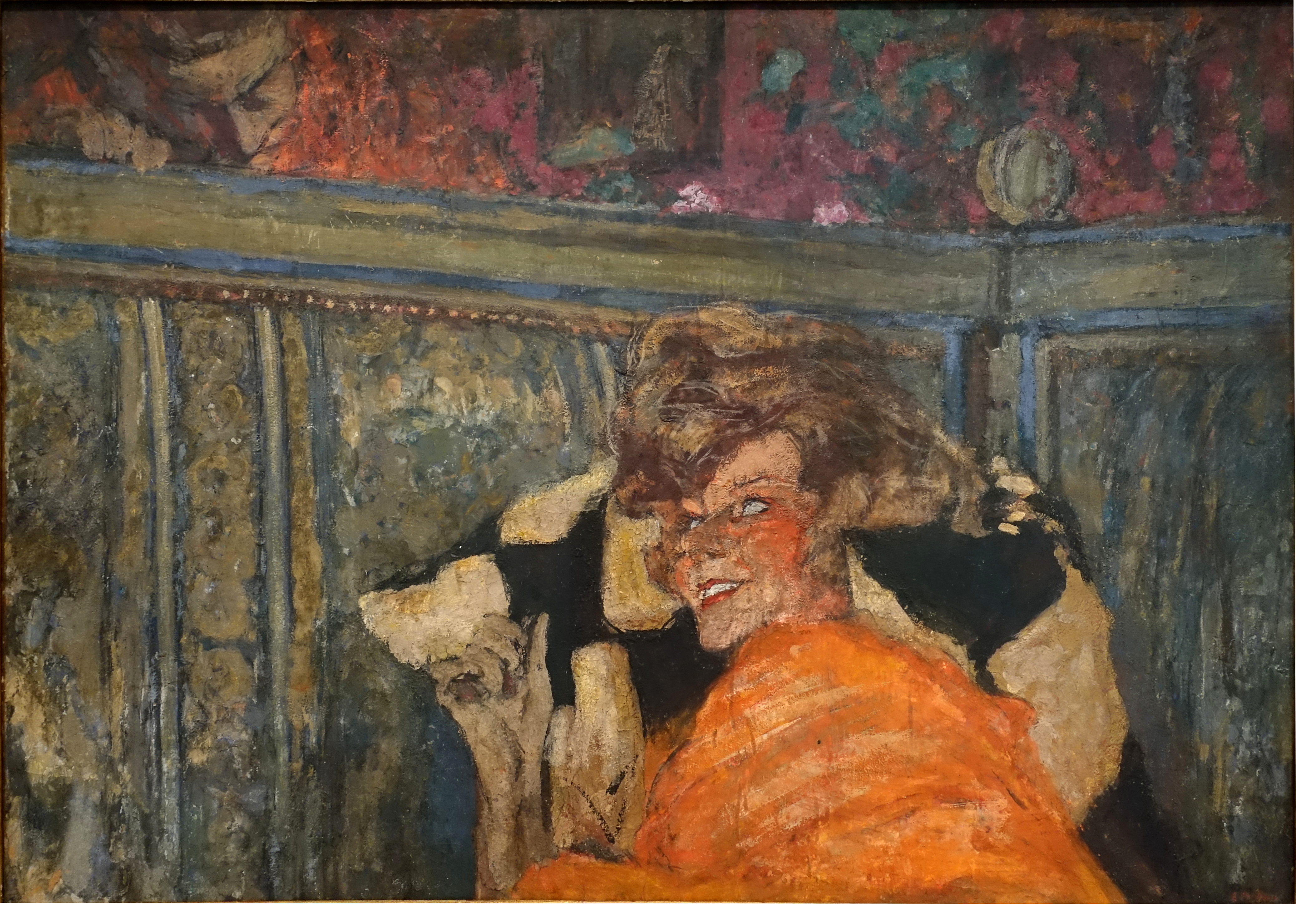 Exhibit in the Museu de Arte de São Paulo - São Paulo, Brazil. This work is old enough so that it is in the public domain.